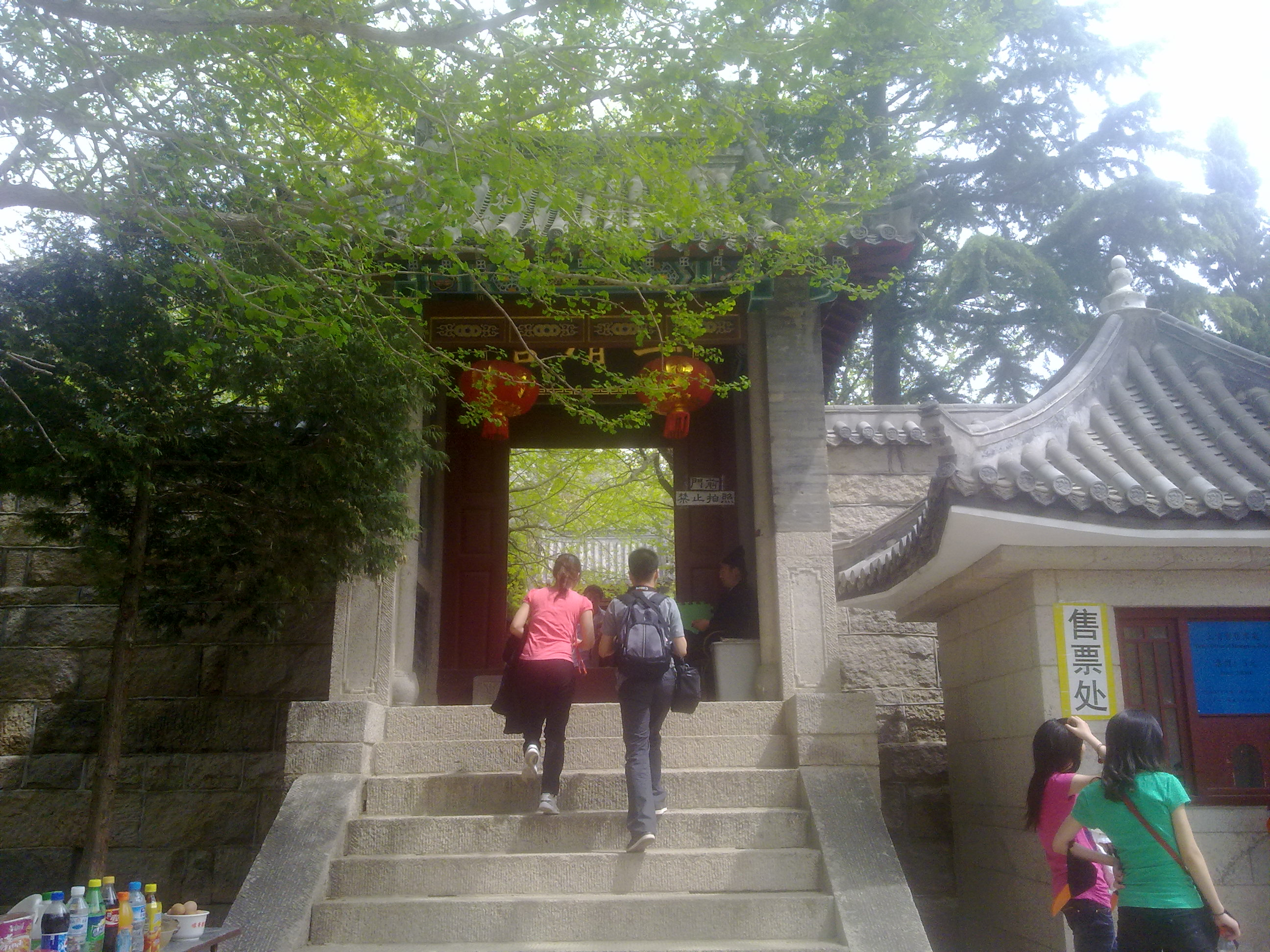 A famous Taoism temple——shang qing gong temple which locate in Laoshan mountain